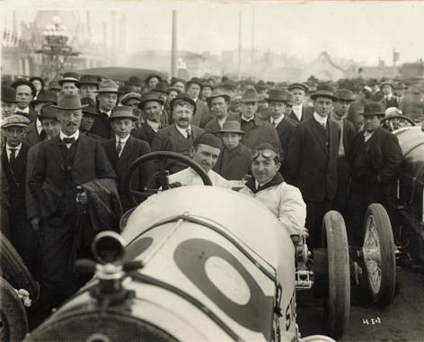 Earl Cooper poses in his Stutz before either the 1915 American Grand Prize and Vanderbilt Cup in San Francisco.